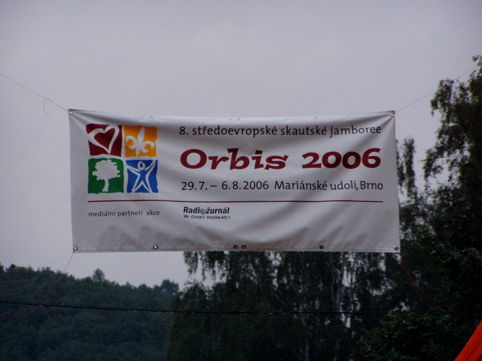 Orbis 2006 - 8th Central European Jamboree (baner)